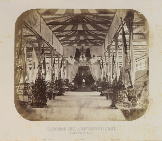 1872 All-Russian Technical Exhibition in Moscow by Ivan Dyagovchenko which started the Polytechnic Museum. Exhibited work by Olga Fenchenko et al et al